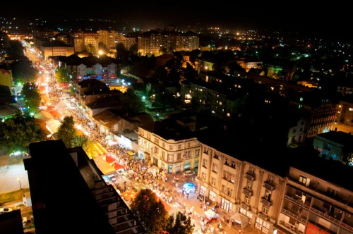 Leskovac panoramic view during Grill festival